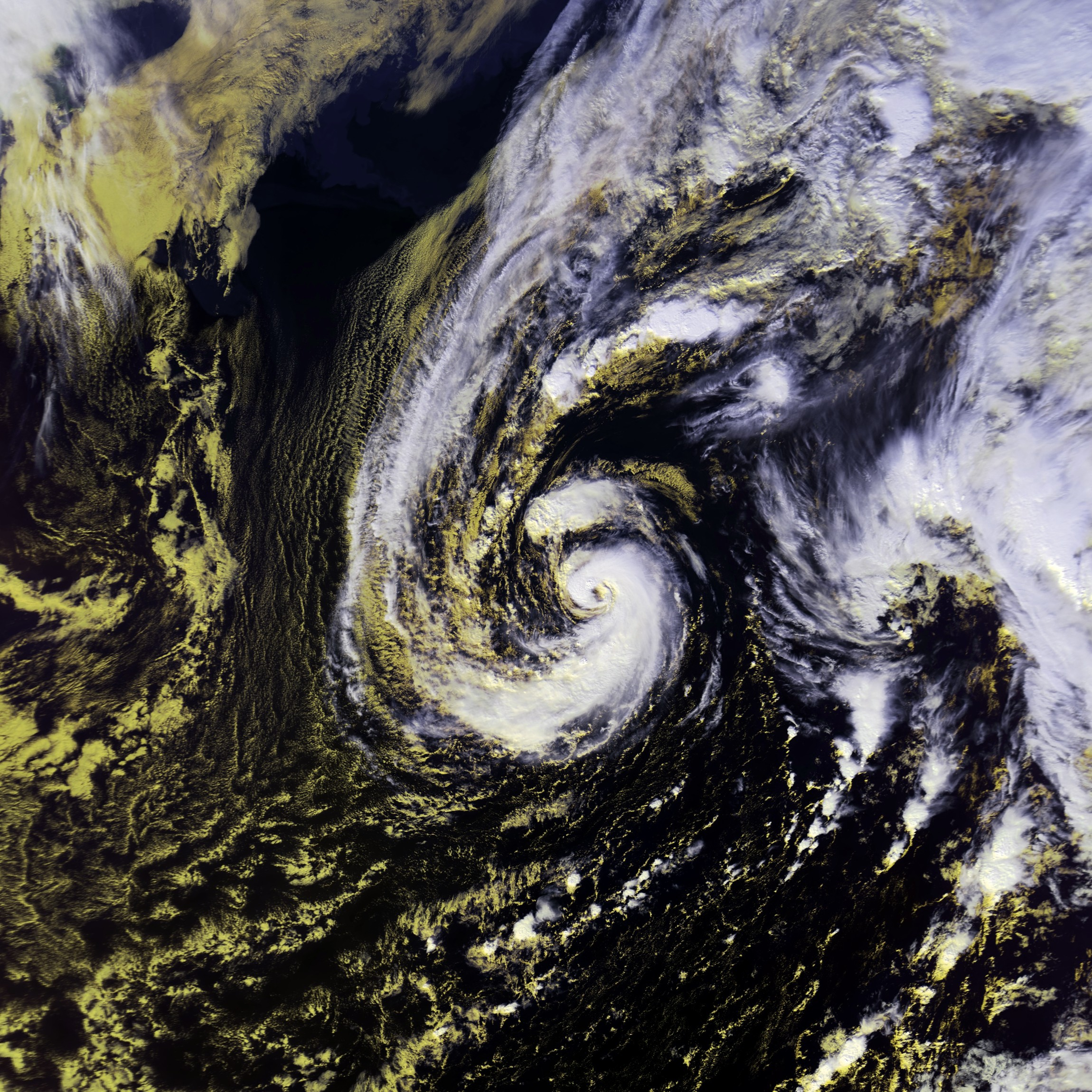 Hurricane Olga near peak intensity on November 27 at 1714 UTC. This image was produced from data from NOAA-16, provided by NOAA. Maximum sustained winds were about 85 mph at this time.